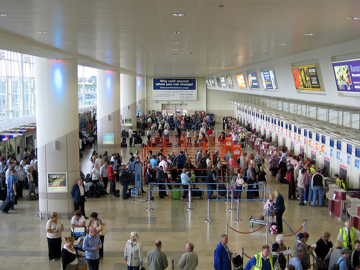 Interior of the terminal building at Liverpool John Lennon Airport, UK